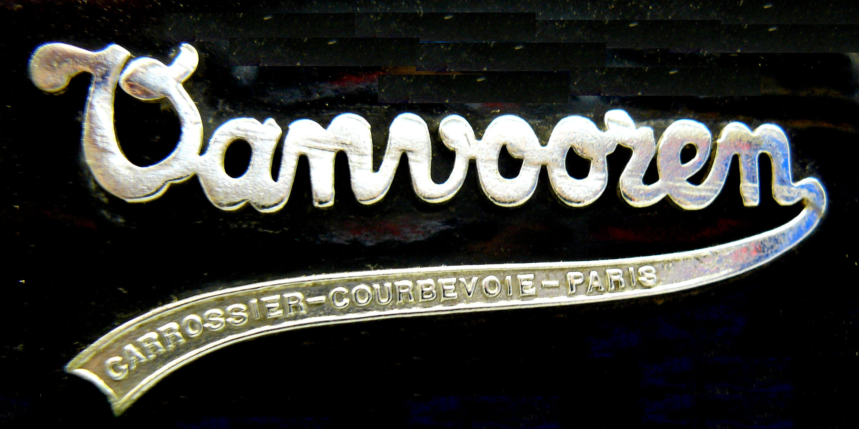 Vanvooren Badge 1937